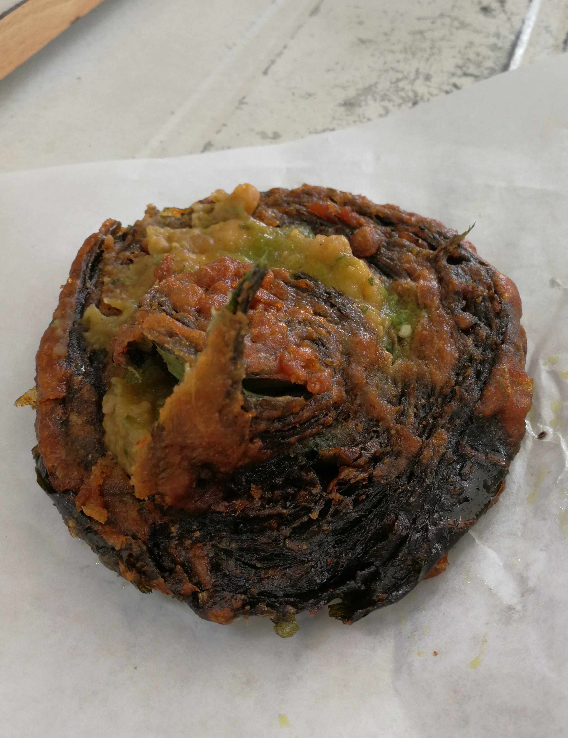 Saheena, roll up type. Trinidadian snack. From street vendor on Grand Bazaar parking space.